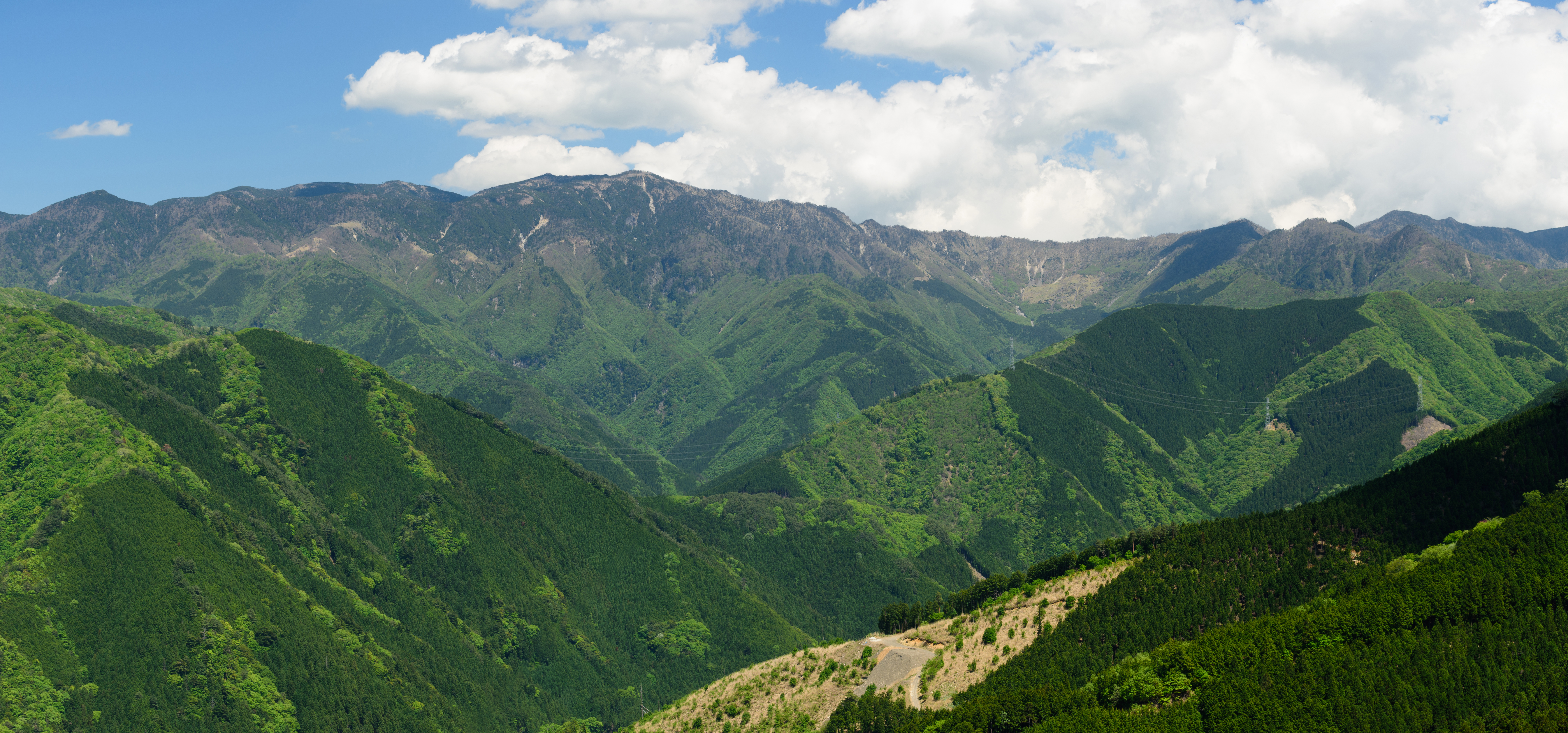 From left to right : Mount Chōsen (1,717 mrtres), Mount Misen (1,895 metres), Mount Hakkyō (1,914.9 metres), Mount Myōjō (1,894 metres), and Mount Shichimen (1,624 metres), Mount Bussyō (1,805 metres) from Shinohara, Gojō, Nara. These mountains of Ōmine Mountains in Nara Prefecture, Japan.